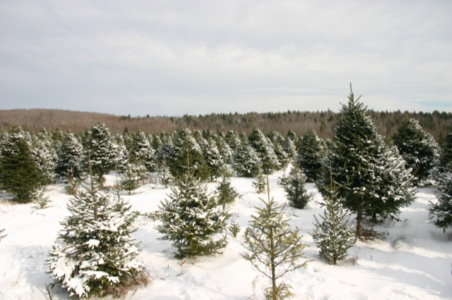 Trees sit under a coat of snow at the Piper Mountain Christmas tree farm in Newburgh, Maine, USA.